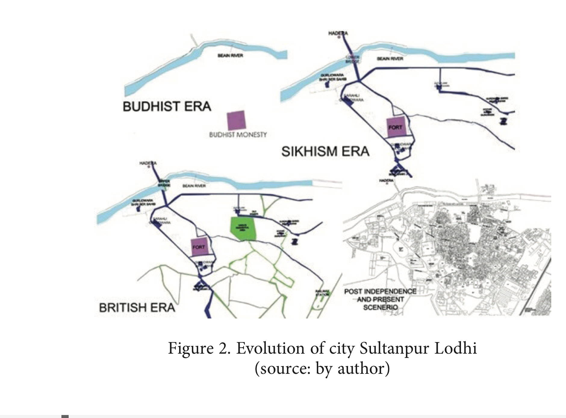 ਇਹ ਨਕਸ਼ਾ ਸੁਲਤਾਨਪੁਰ ਲੋਧੀ ਇਲਾਕੇ ਦਾ ਸਹਿਜ ਵਿਕਾਸ ਦਰਸਾਂਉਦਾ ਹੈ